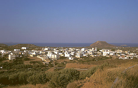 Palekastro East Crete Isl. Licence: - GNU Free Documentation License Source: Udo Langenohl Made: 1997